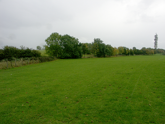 Pur Down, Lockleaze behind St James' looking SSW. Pur Down / Lockleaze looking SSW from east side of St James' Church. An attractive and accessible green patch, well used by local residents and dog-walkers.